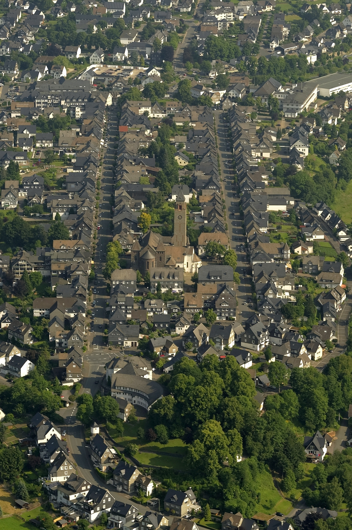 Fotoflug Sauerland-Ost: Schmallenberg aus südlicher Richtung The making of this document was supported by the Community-Budget of Wikimedia Germany.